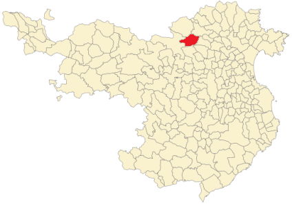 San Lorenzo de la Muga